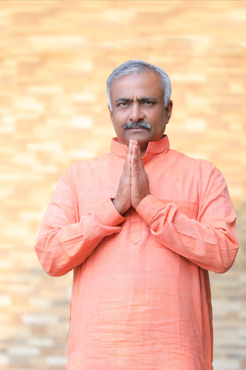 Sanjay Vinayak Joshi